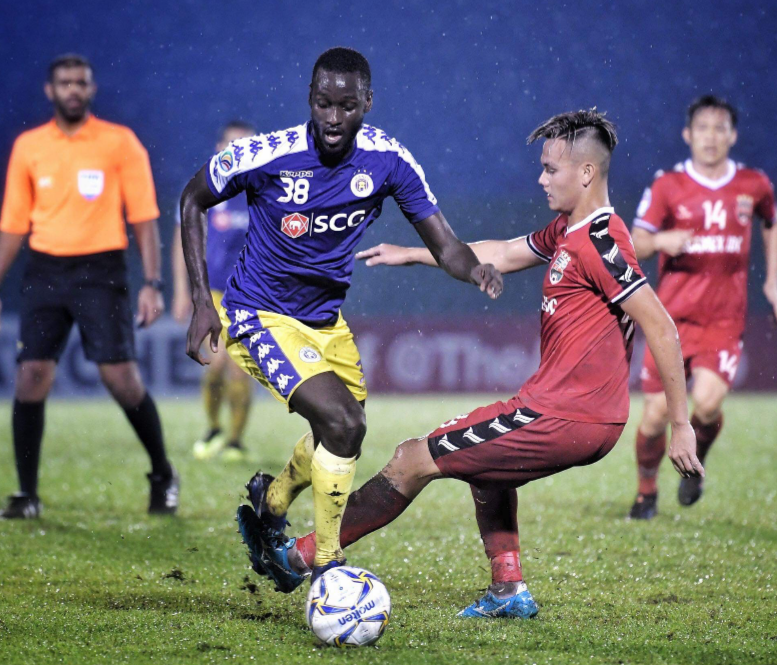 Professional footballer from France, Papa Ibou Kebe. Currently playing in Vietnam League for Hanoi FC.